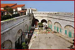 Jumper's Bastion refers to one of two adjacent bastions in the British Overseas Territory of Gibraltar. This is north